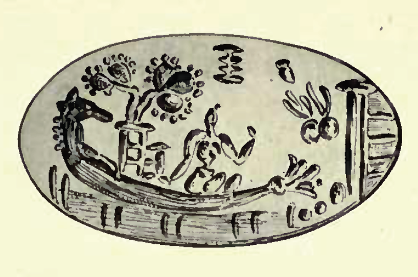 Minoan gold ring of Mochlos.